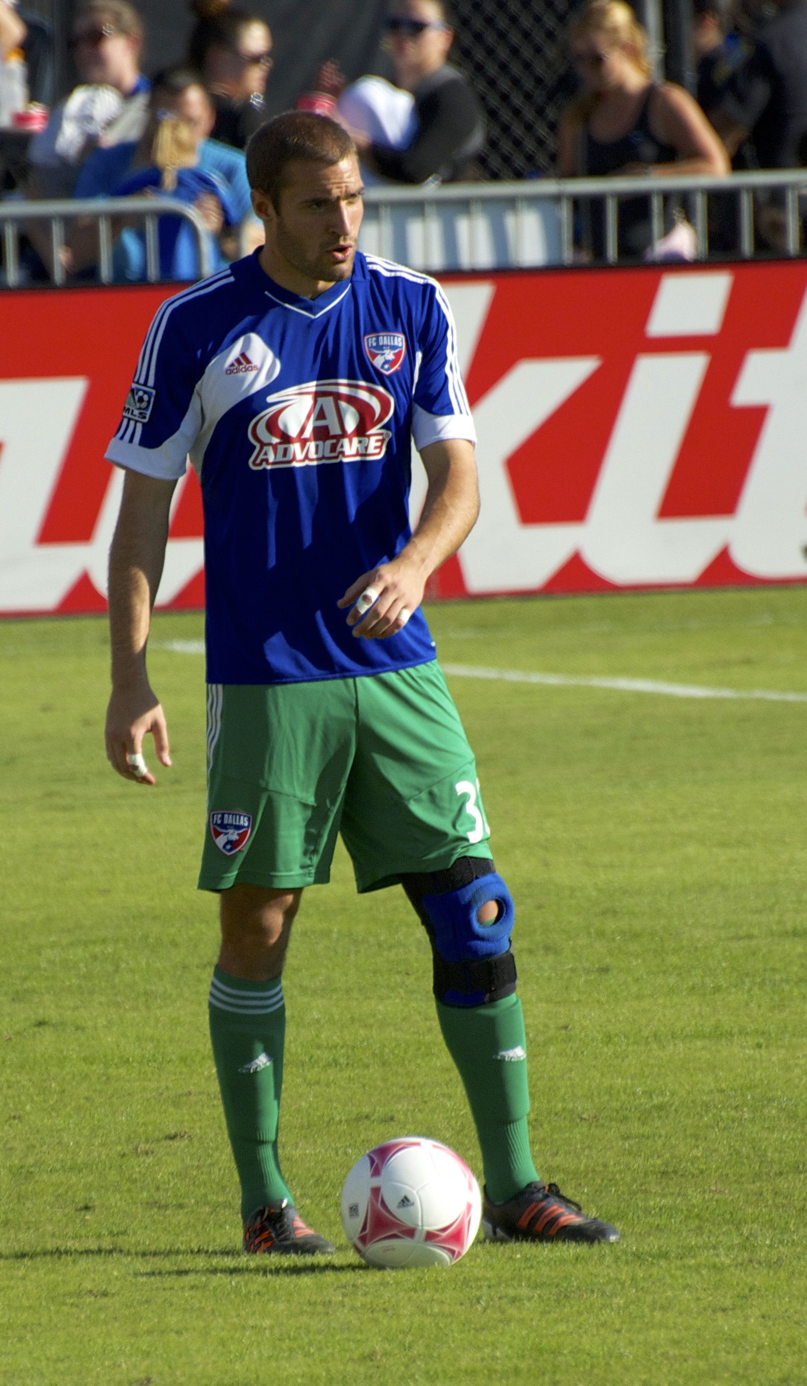 Kyle Zobeck, FC Dallas, Buck Shaw Stadium, 26 October 2013